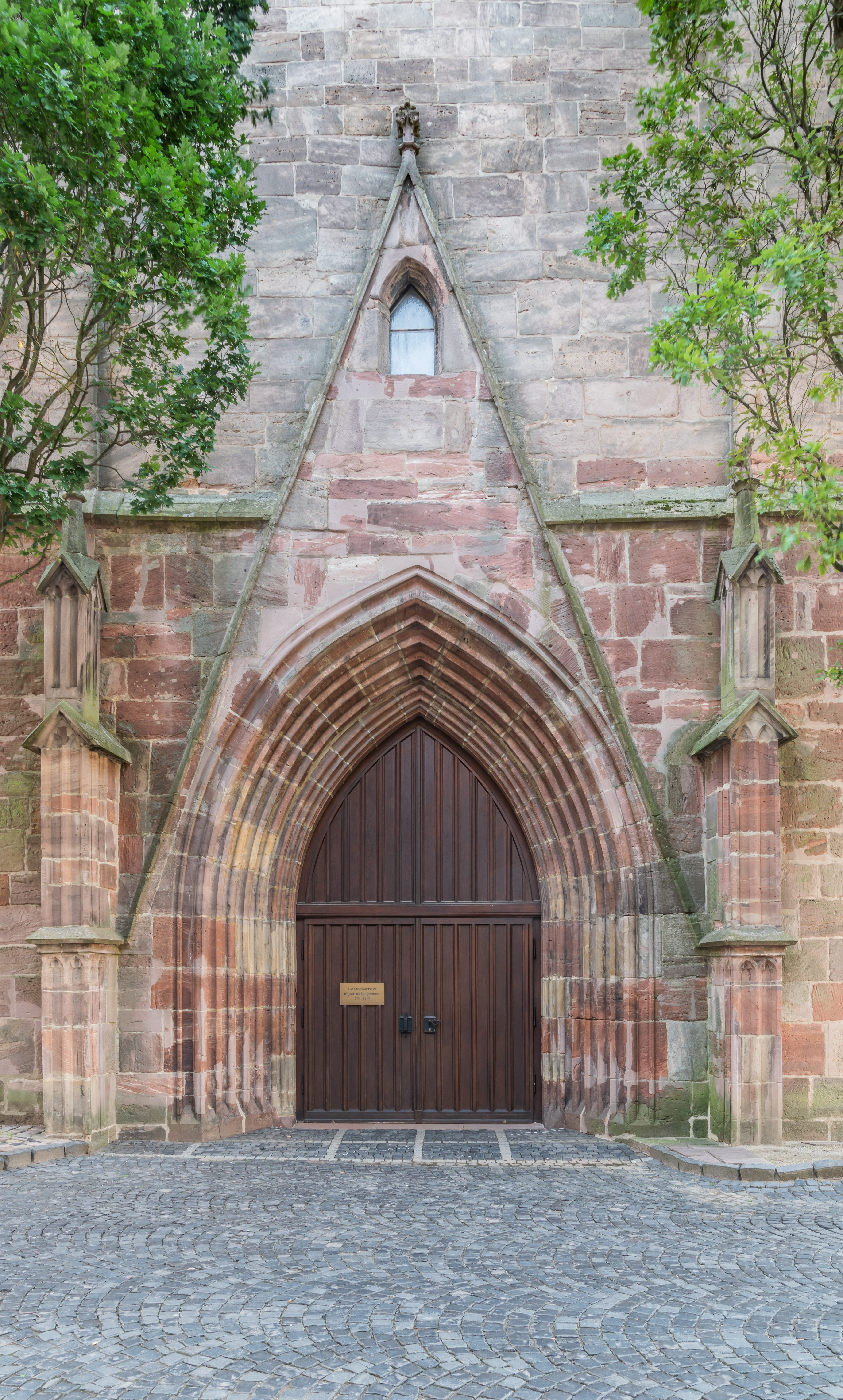 Main portal of the rotestant city church in Bad Hersfeld, Hesse, Germany